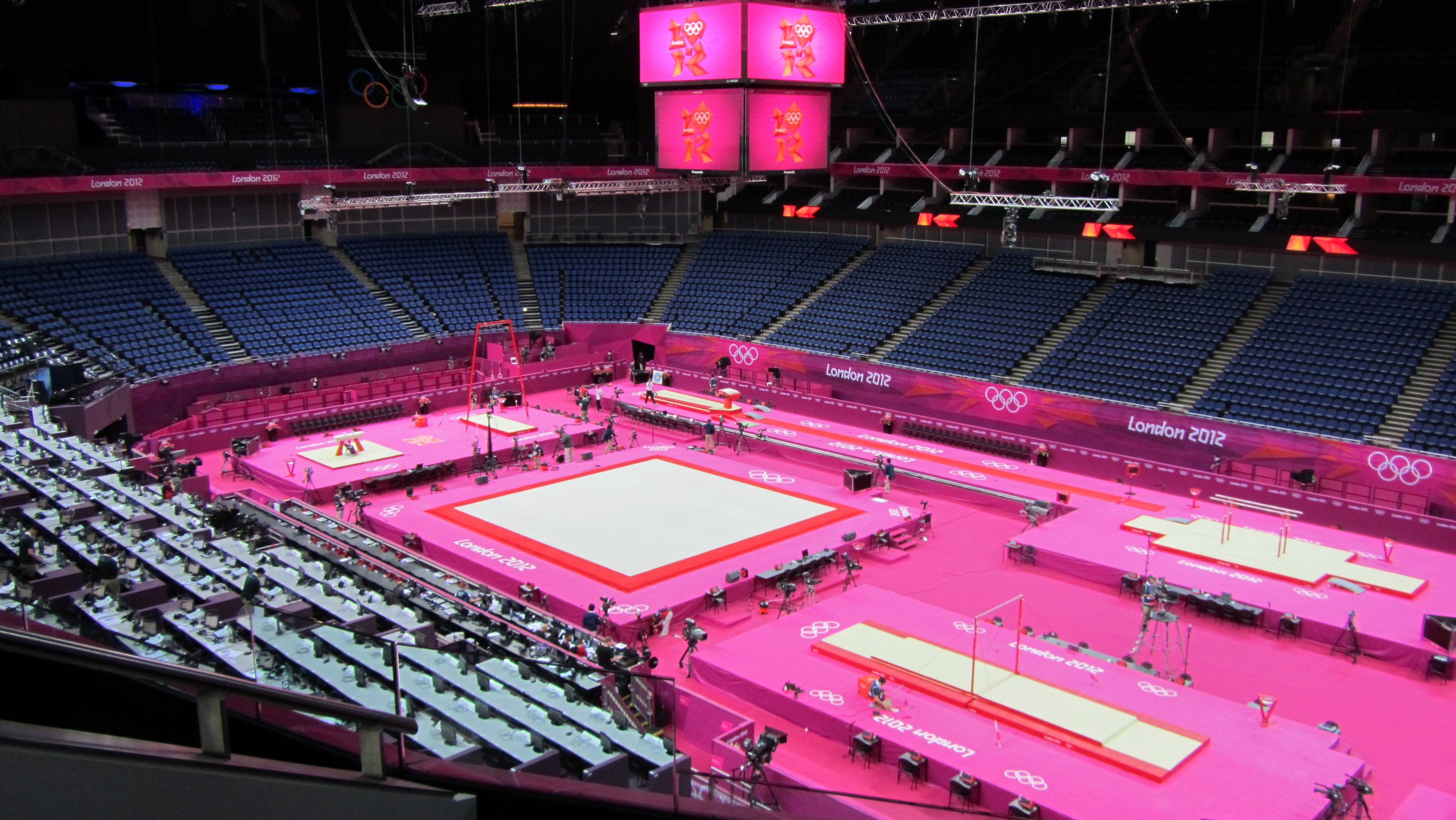 The North Greenwich Arena prepares for the Olympic artistic gymnastics